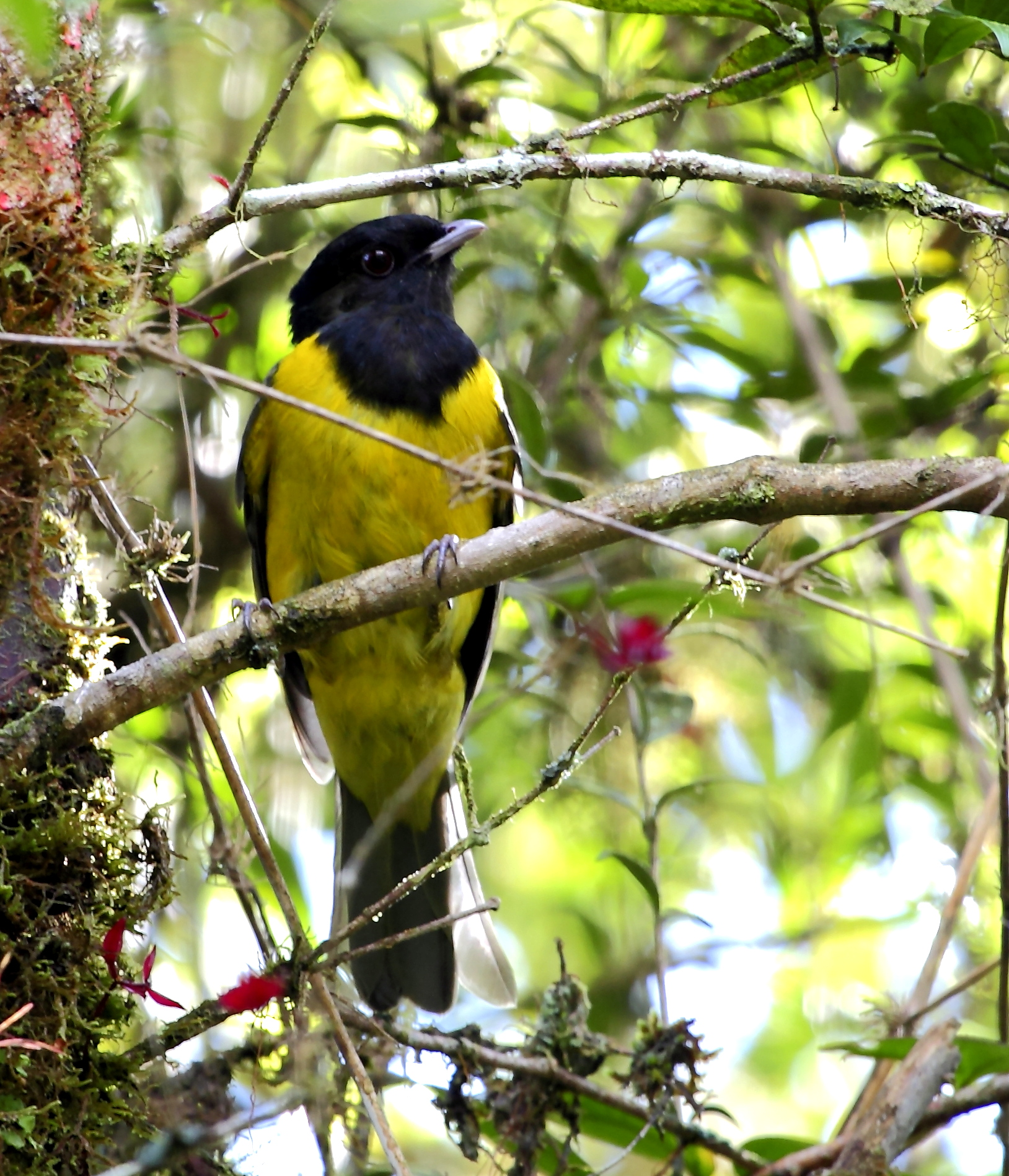 Hooded berryeater at São Luiz do Paraitinga, SP, Brazportil